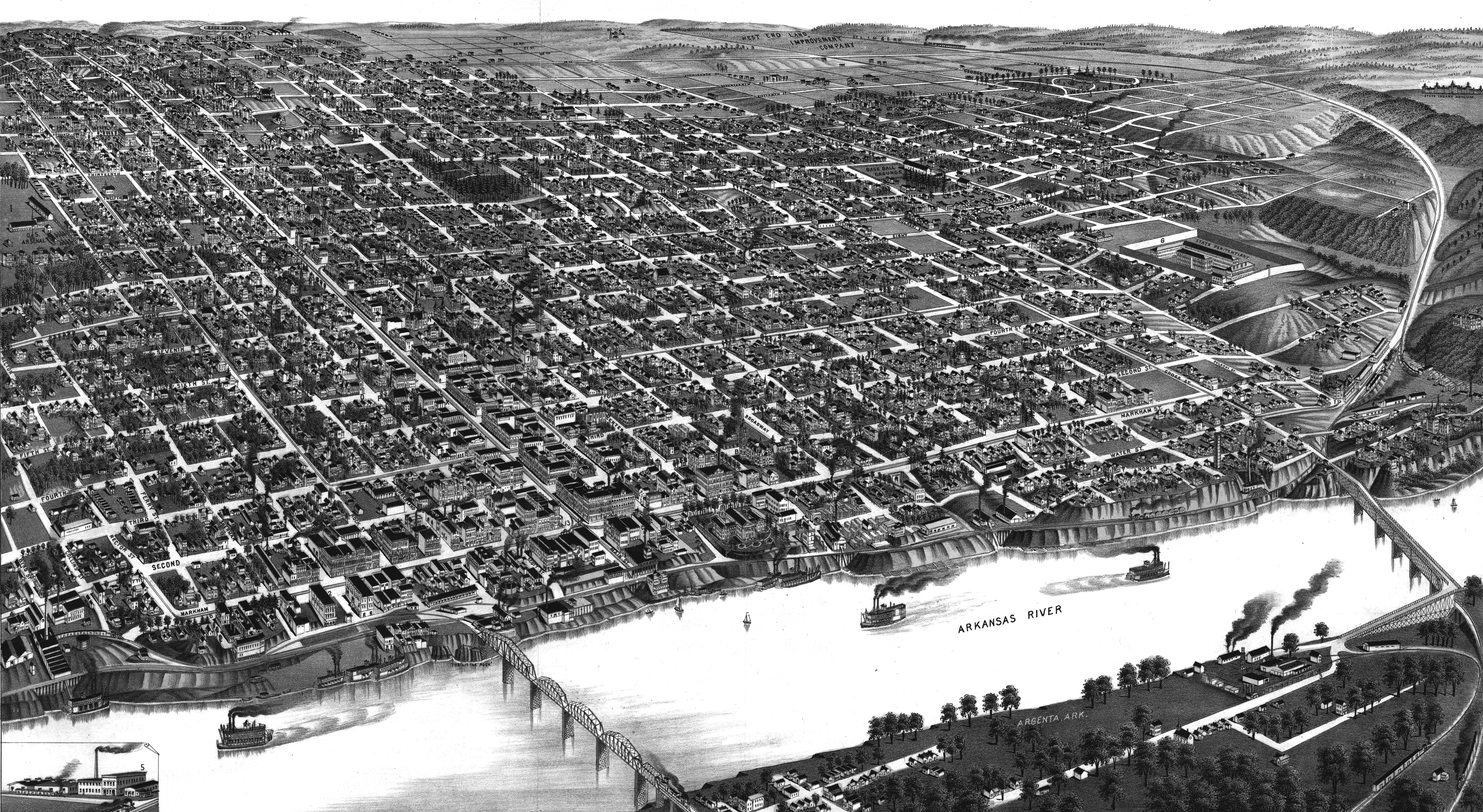 Perspective map of the city of Little Rock, Ark., State capital of Arkansas, county seat of Pulaski County. 1887. Col. Map 46 X 77 Cm.